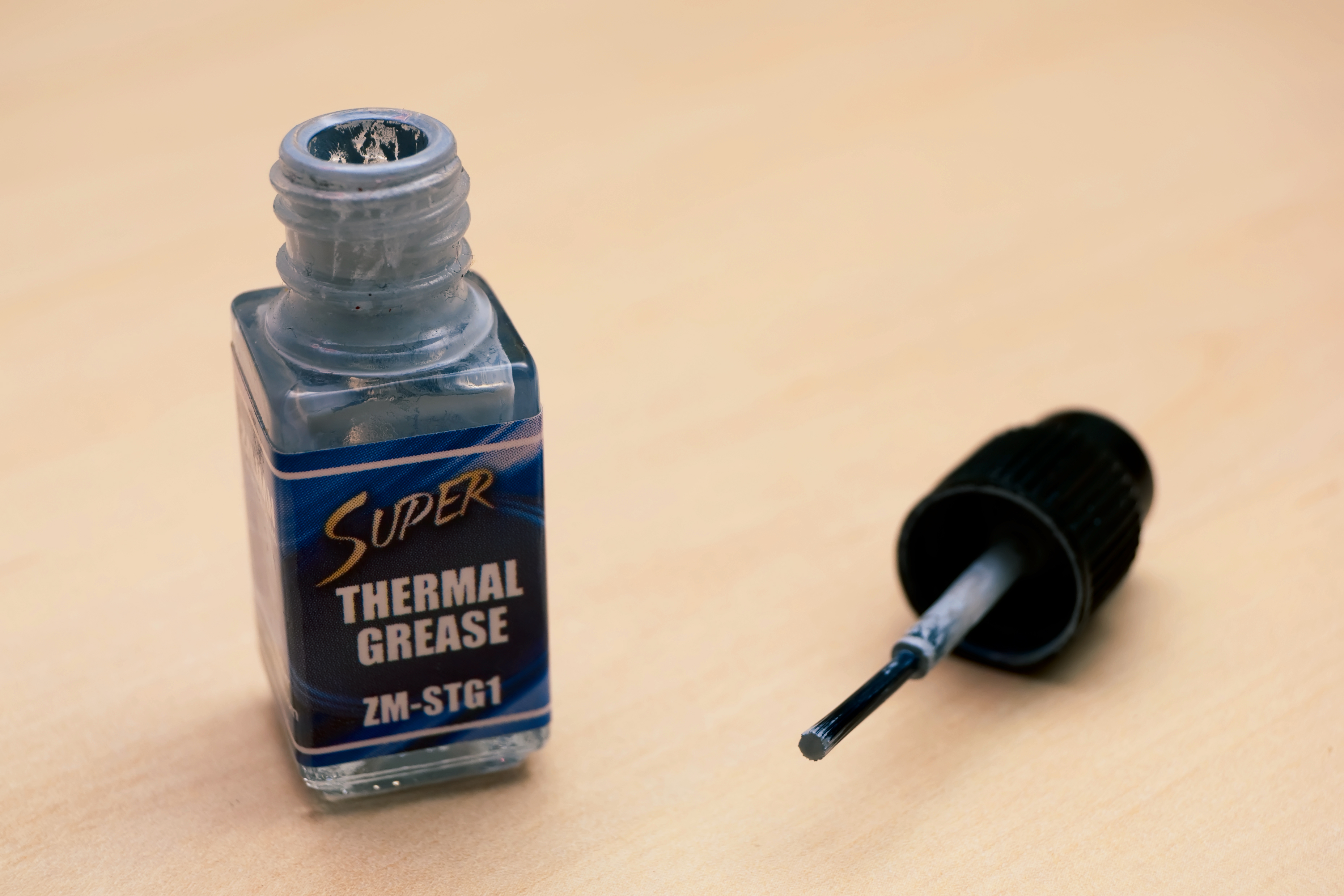 An open bottle of Zalman Super Thermal Grease, with applicator brush.